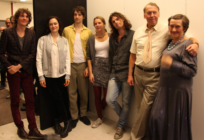 Cast from Swedish film Shed No Tears (2013) with Håkan Hellström. From left to right: Håkan Hellström, Disa Östrand, Adam Lundgren, Josefin Neldén, Jonathan Andersson, Tomas von Brömssen and Gunilla Nyroos.